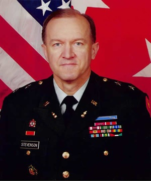 Maj. Gen. Mitchell H. Stevenson